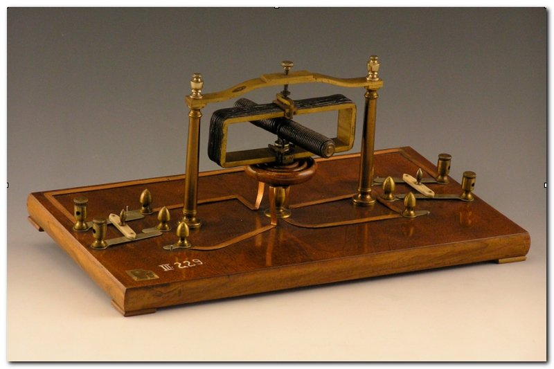 World's first electric motor, the Jedlik motor (1828, Hungary)